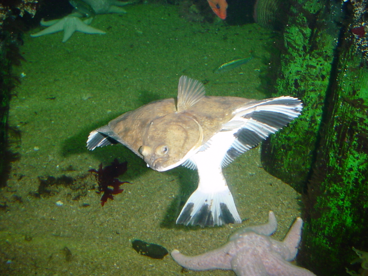 Starry flounder (Platichthys stellatus)